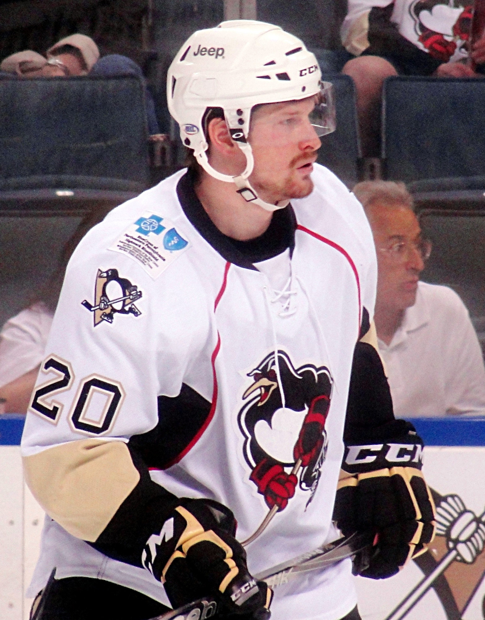 Wilkes-Barre/Scranton Penguins defenseman Alex Grant during a AHL Calder Cup Playoffs second round game against the St. John's IceCaps, May 5, 2012 at Mohegan Sun Arena at Casey Plaze in Wilkes-Barre, PA.